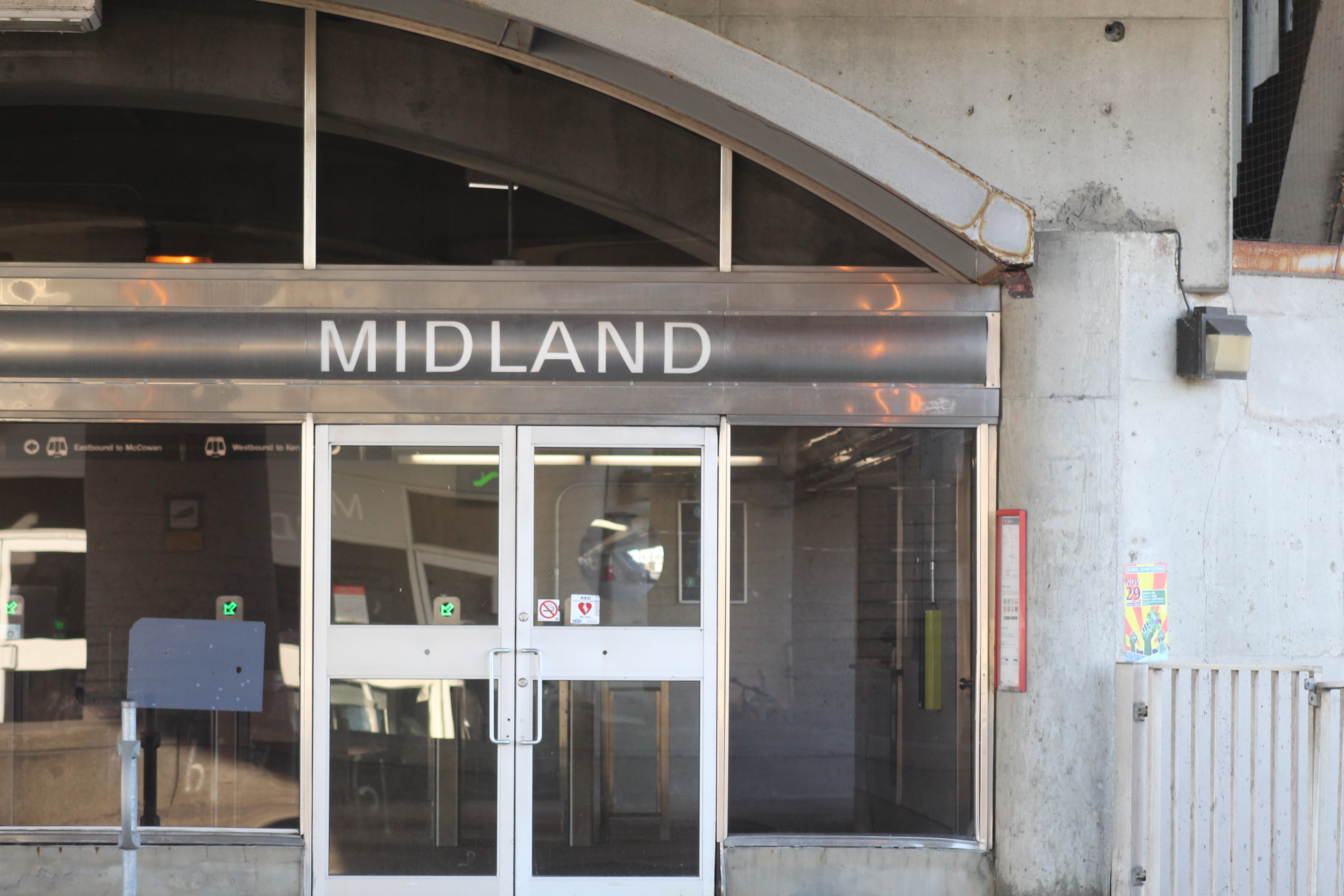 Midland station entrance